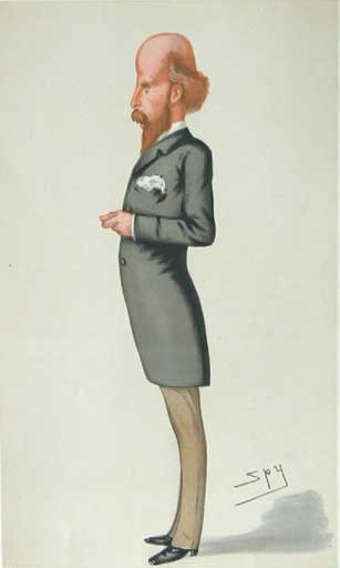 Caricature of Edward Jenkins MP. Caption read "Ginx's Baby".